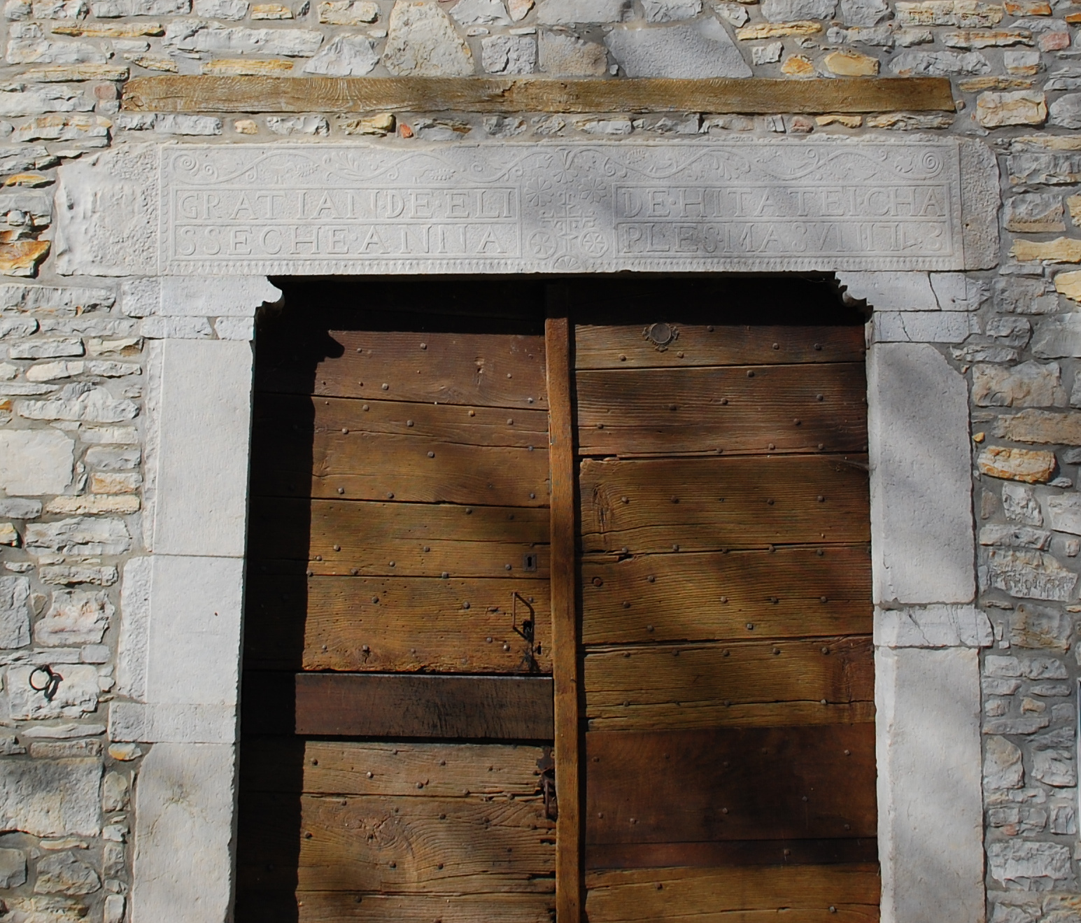 Atalburu "Gratian de Elisseche & Anna de Hita Teichar ? 1743", Cibits.